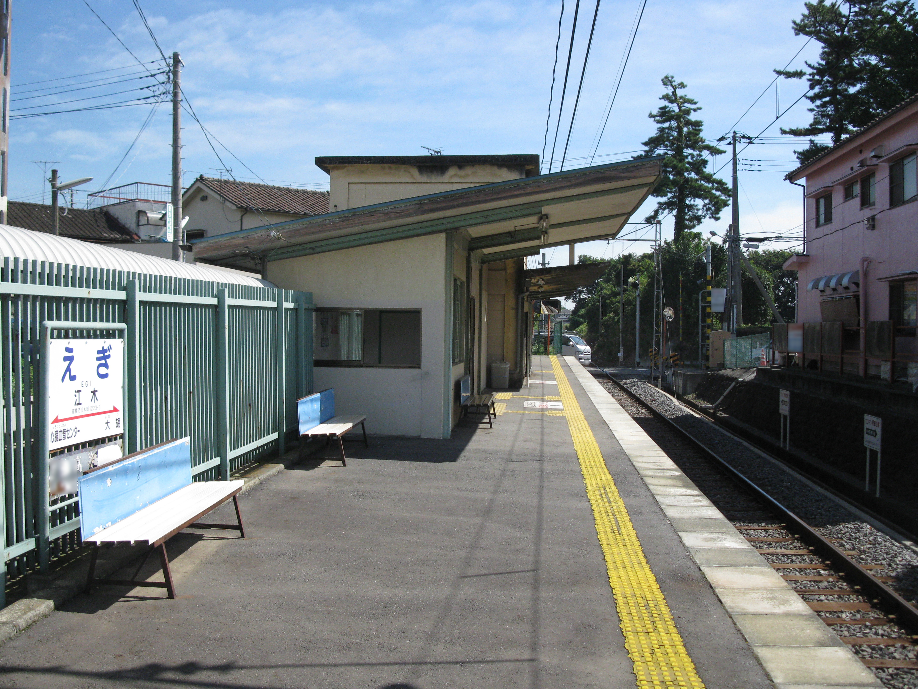 Egi Station platform (Jōmō Electric Railway Company Jōmō Line)